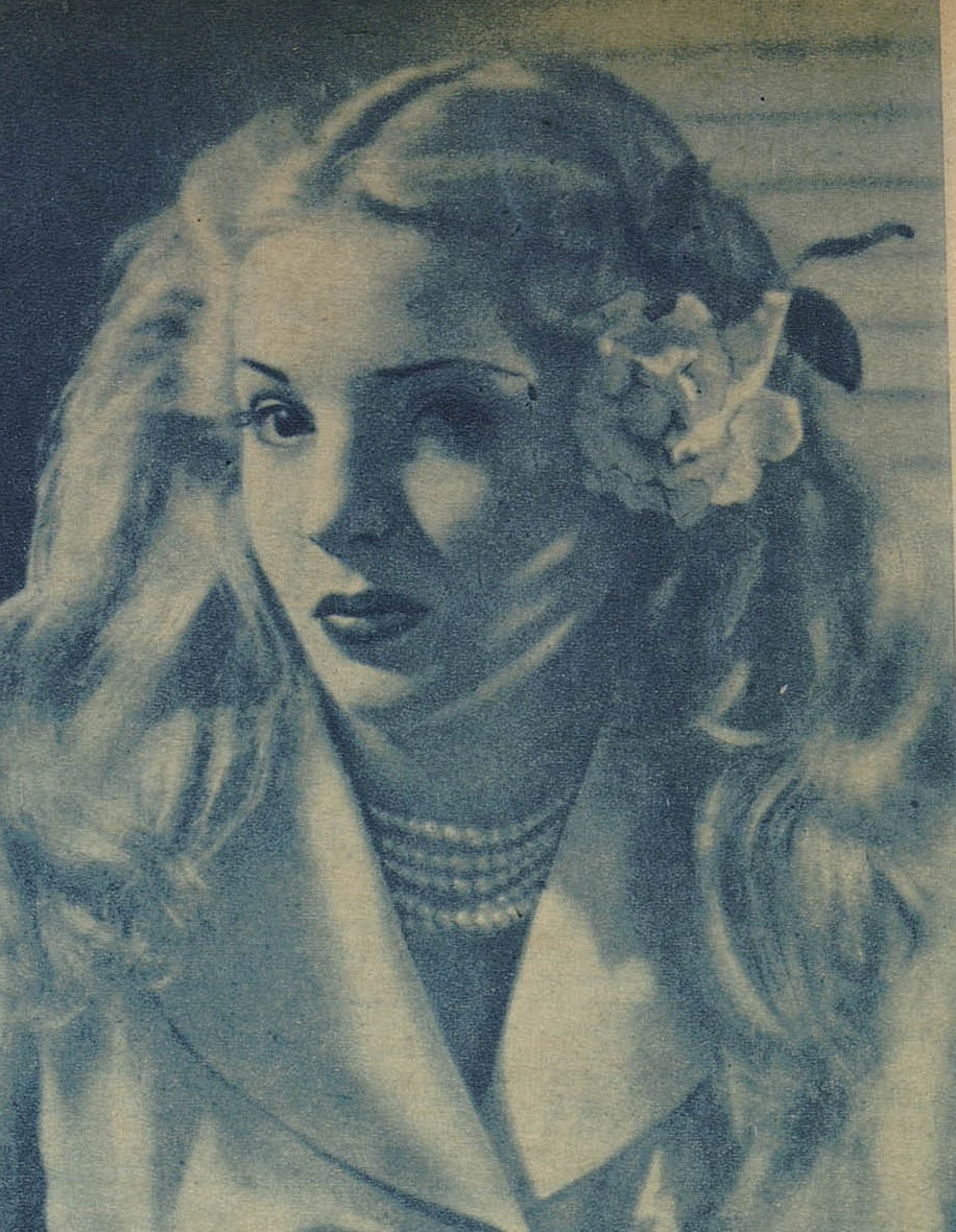 Spanish Actress Sara Montiel